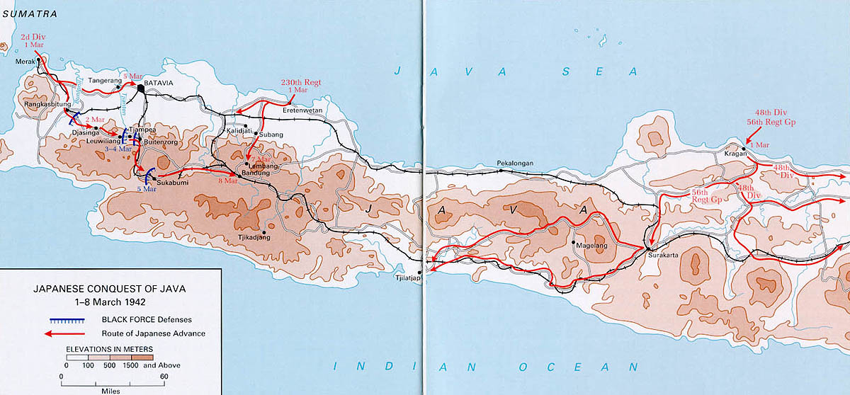 Japanese Conquest of Java, 1-8 March 1942